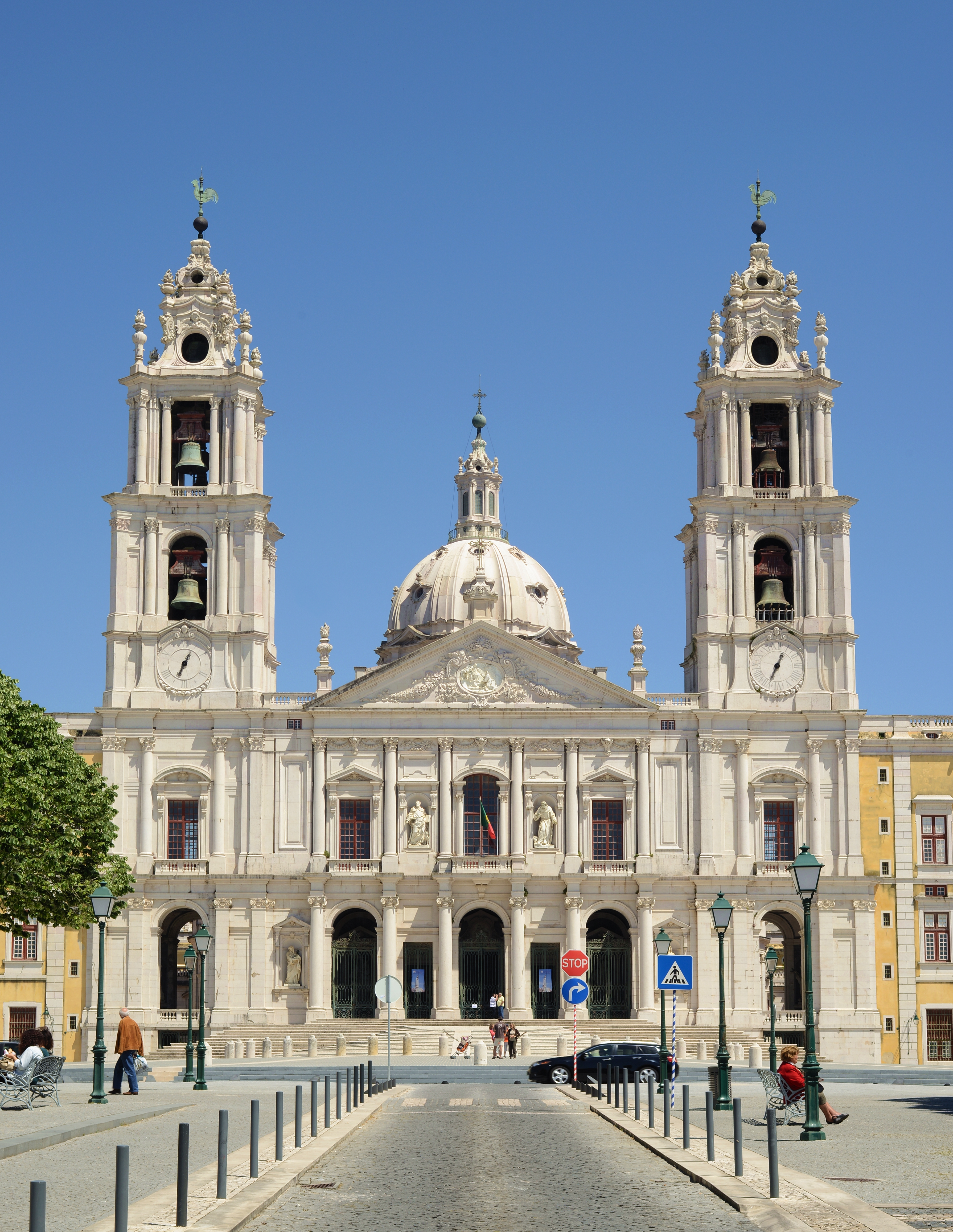 Main facade of Mafra National Palace, Portugal